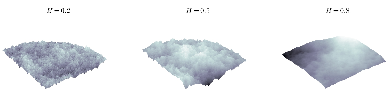 Fractional Brownian surfaces for different Hurst parameter generated using Stein's intrinsic embedding method.